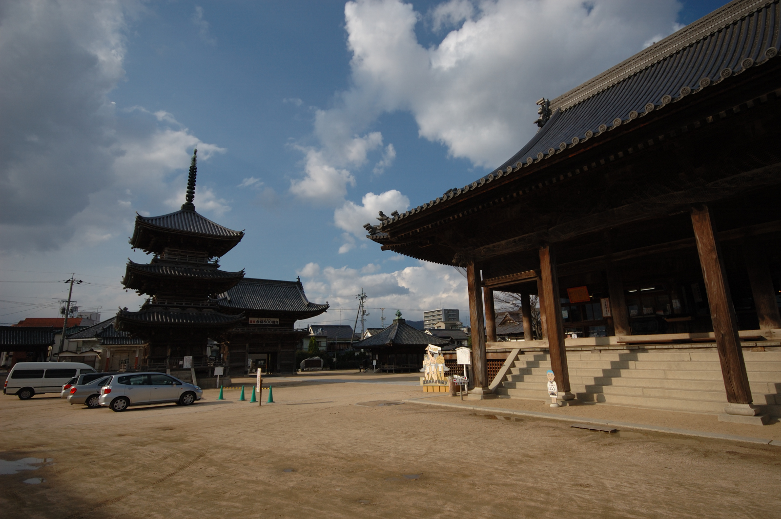 Kinryozan Saidaiji temple